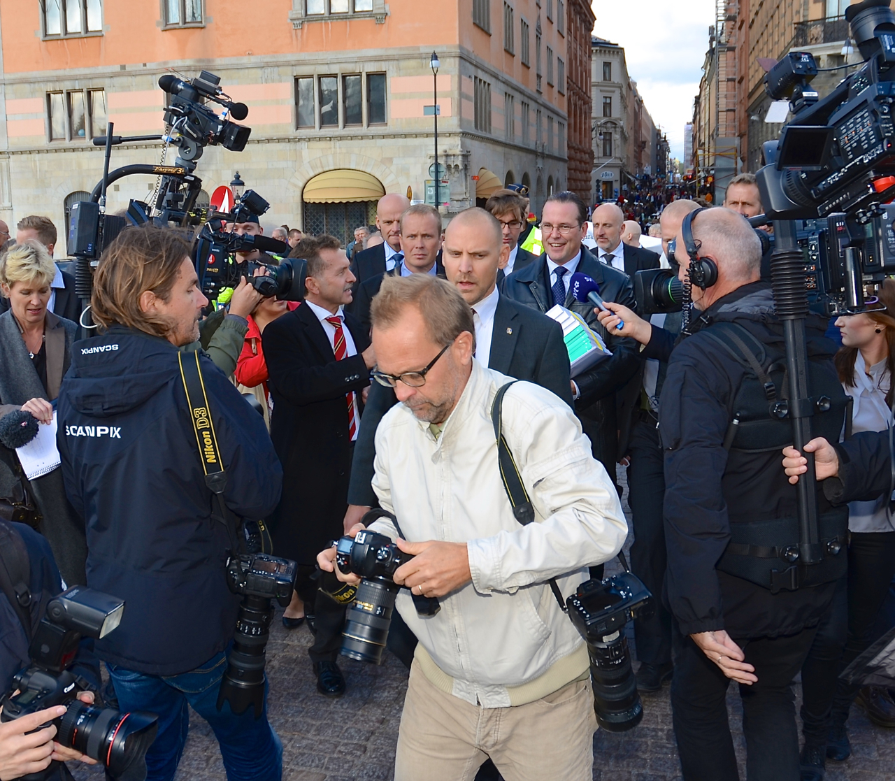 Swedish Minister for Finance Anders Borg, with the 2012 budget proposition, during tthe walk to Parliament, September 20th 2011.